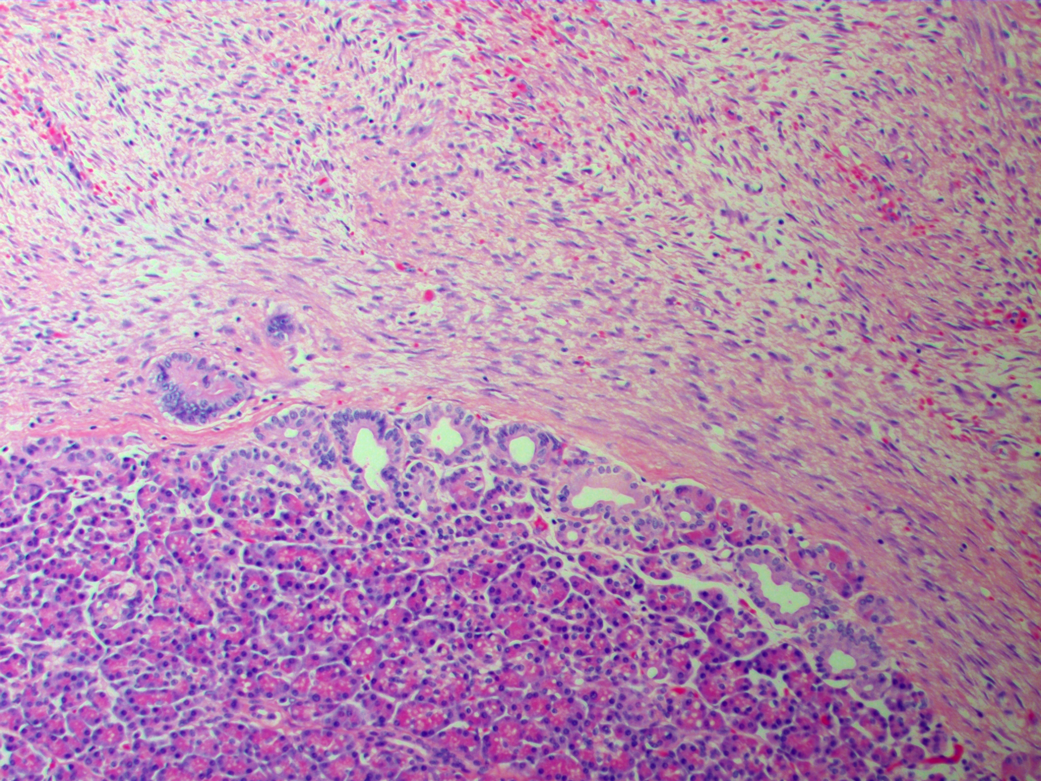 Intra-abdominal desmoids can overrun vital organs; in this case, the pancreas.